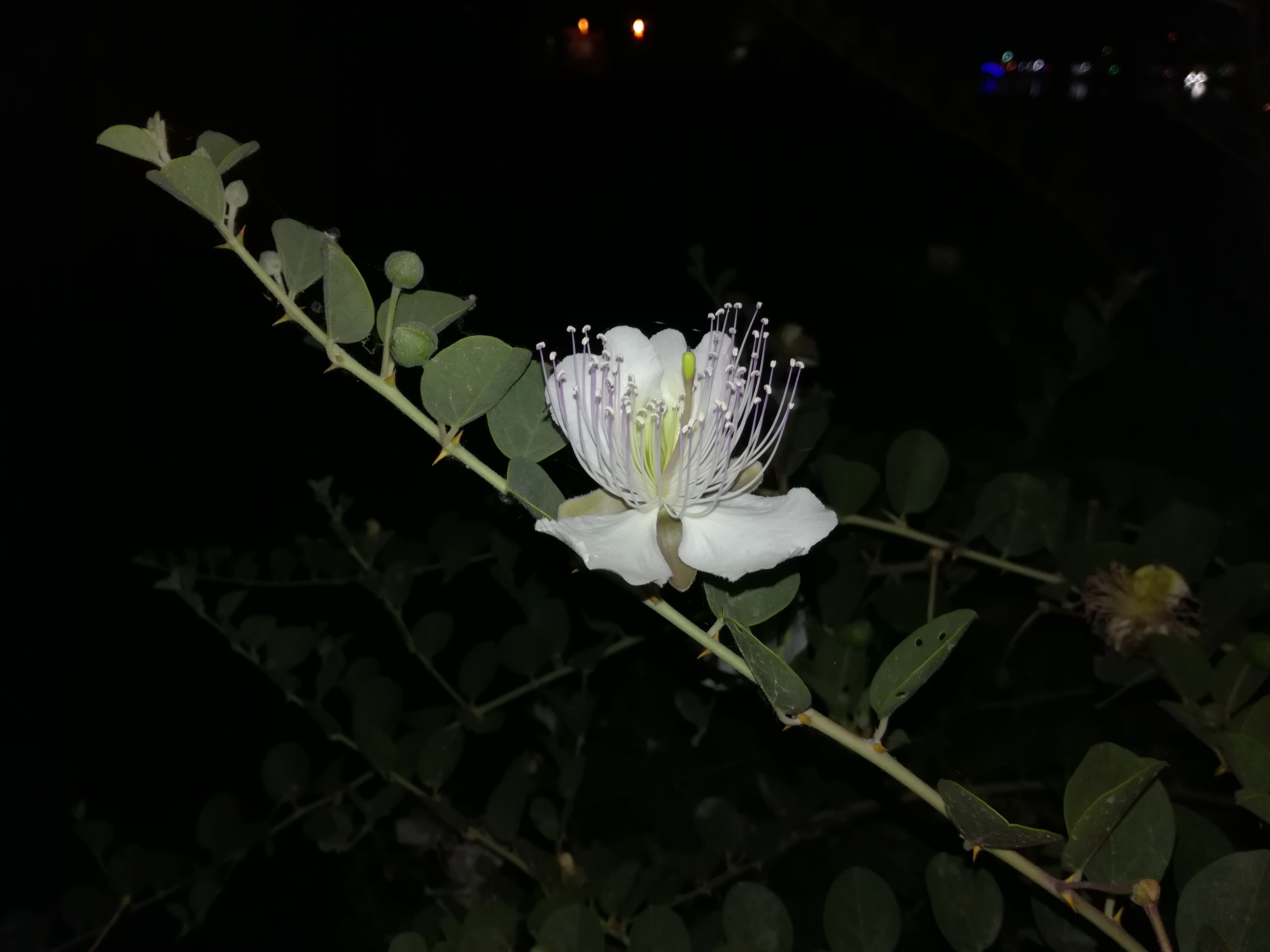 Wild Caper in Behbahan